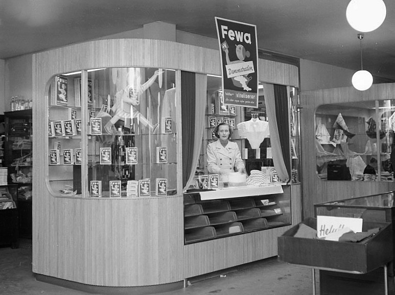 FOTOGRAFIKungsgatan 34-36. Demonstration av tvättmedel på varuhuset Meeths. 1953-1953 FOTOGRAF: Ehnemark, Jan (Pressfotograf). Svenska DagbladetBILDNUMMER: SvD 33691Stadsmuseet i Stockholm